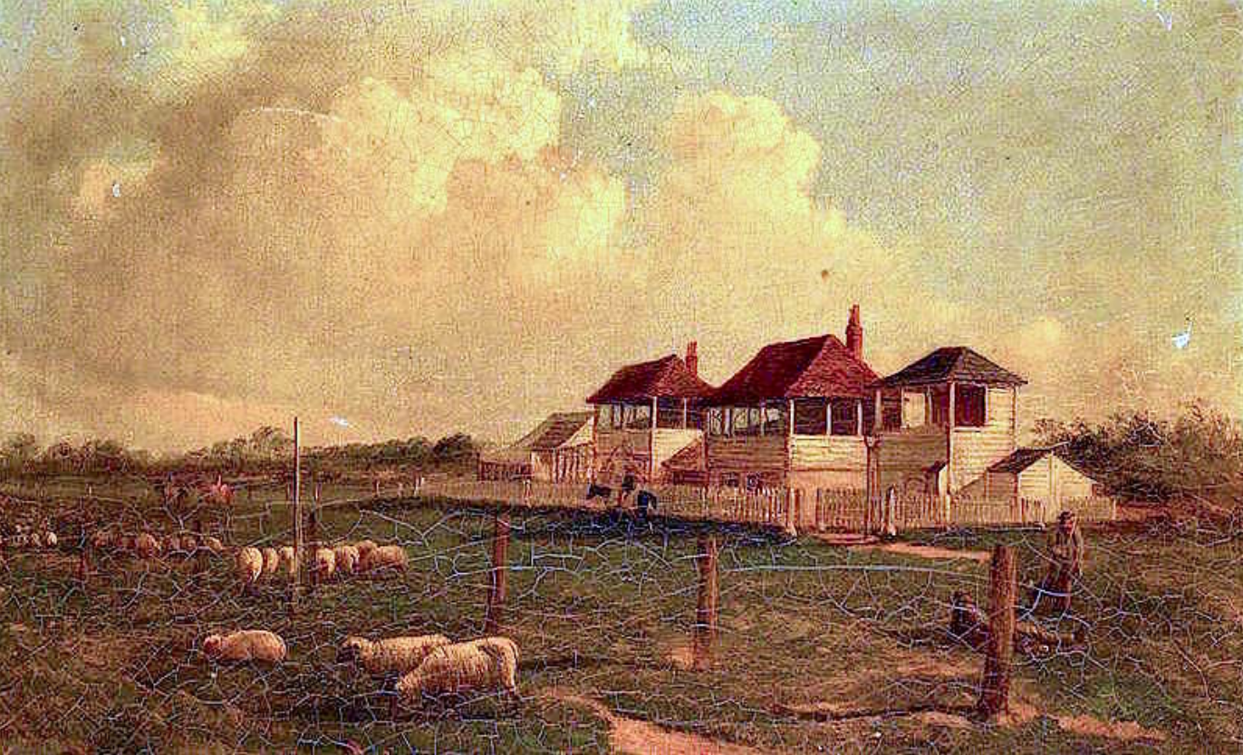 Sheep in foreground with race course buildings in the background